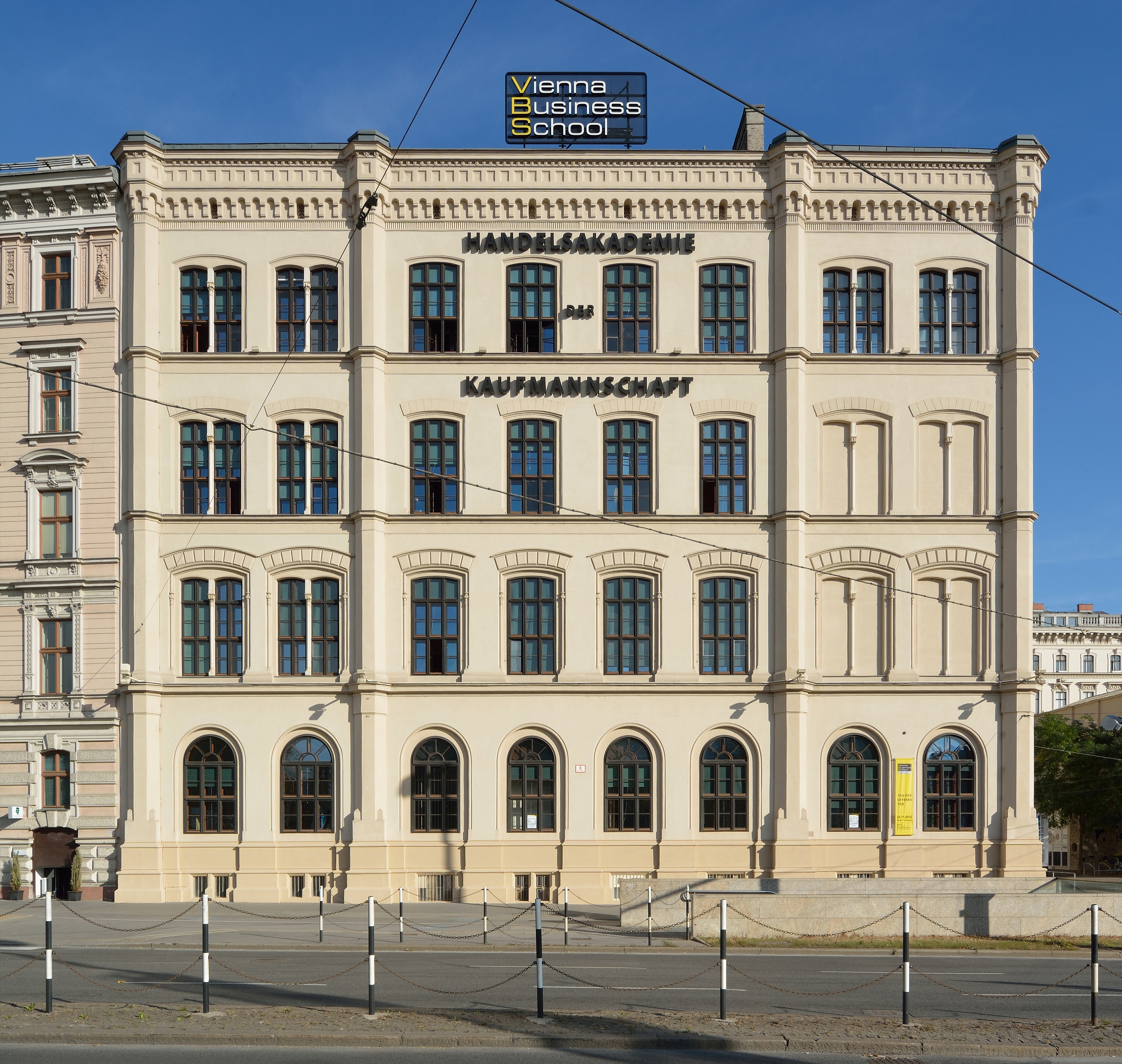 Business school Handelsakademie I., Akademiestraße 12 / Bösendorferstraße 8 / Karlsplatz 4, 1st district of Vienna